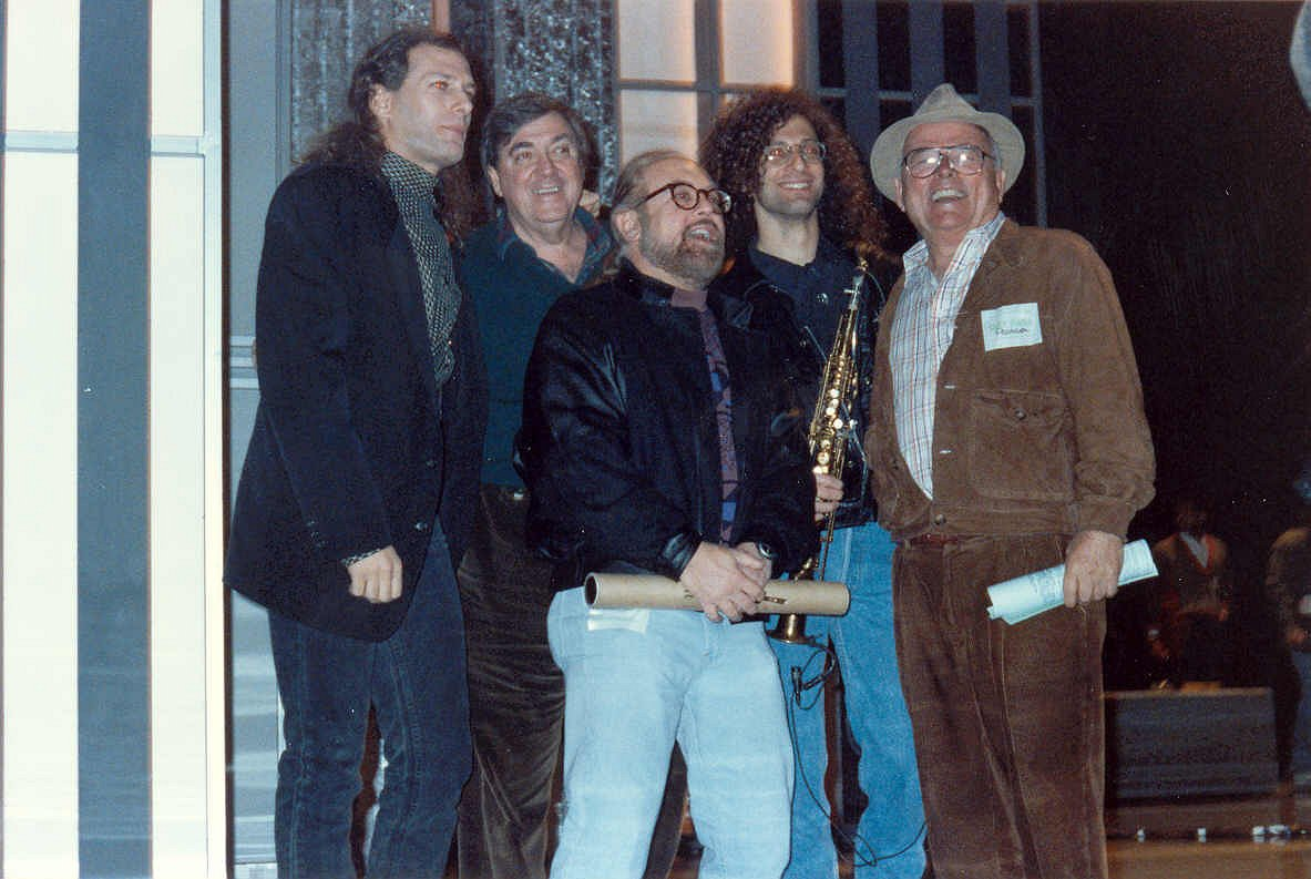 Michael Bolton and Kenny G pose with Grammy producer "Pierre Cossette (right) and others at Grammy rehearsal 2/20/90 - Permission granted to copy, publish, broadcast or post but please credit "photo by Alan Light" if you can